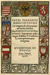 Title page of the first edition of the De Magnete of Pierre de Maricourt, editor Achilles Gasser.